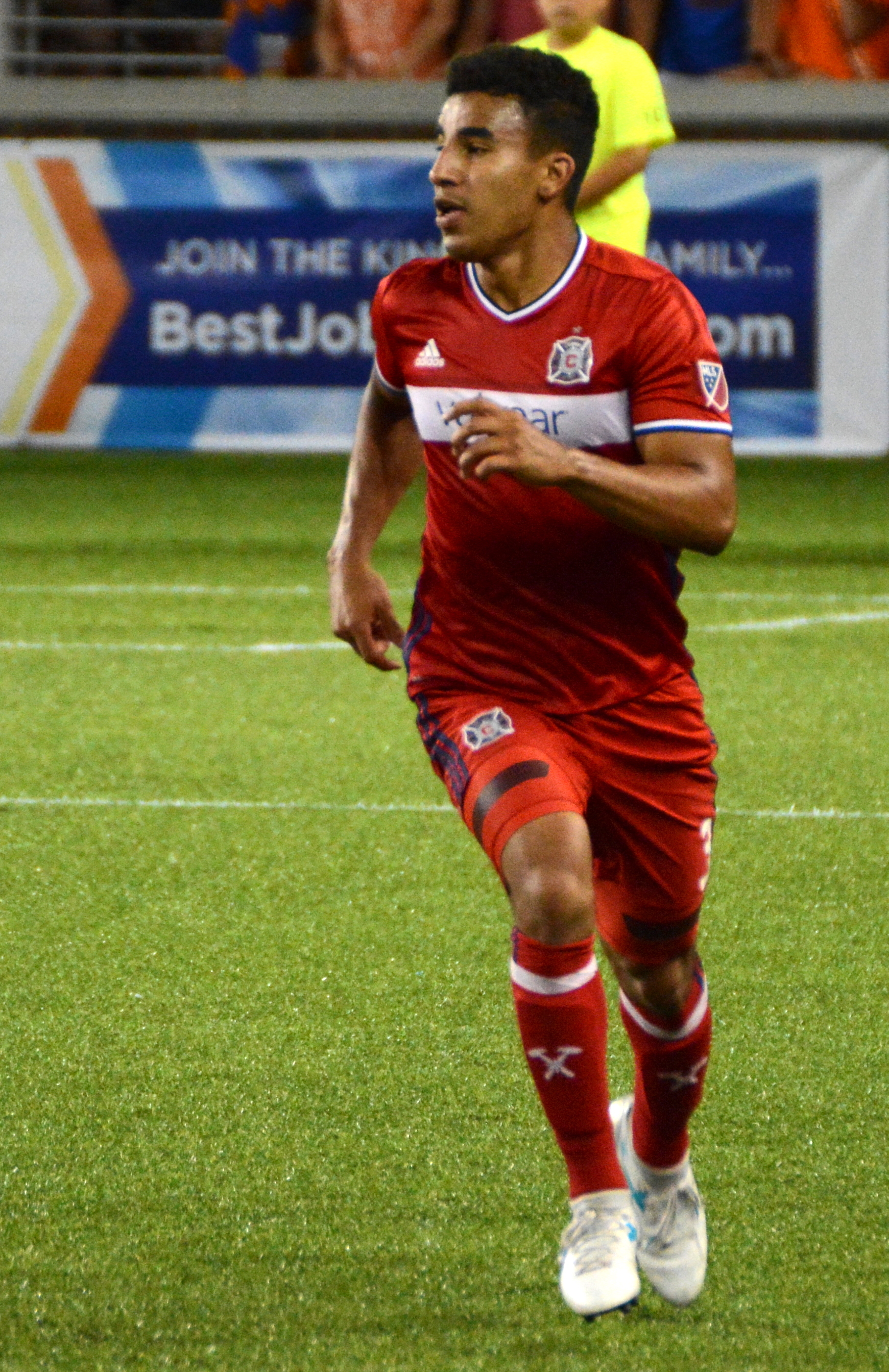 Taken at a U.S. Open Cup match between FC Cincinnati and Chicago Fire SC at Nippert Stadium in Cincinnati, Ohio on June 28, 2017.